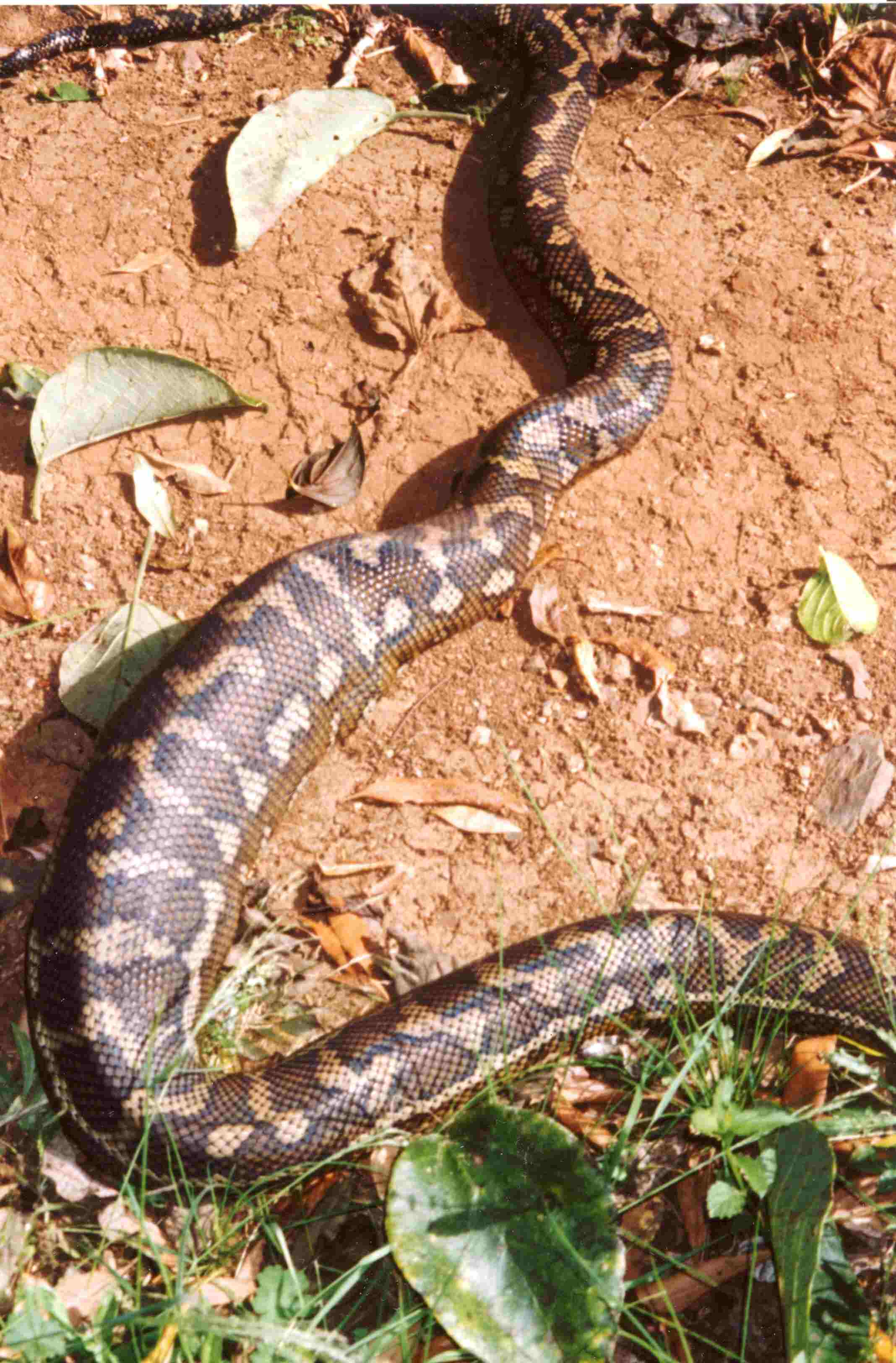 Morelia spilota mcdowelli 2.5 metres long at Toonumbar National Park, taken from the car, with the snake digesting a meal. The meal "bump" was considerably high as well as wide